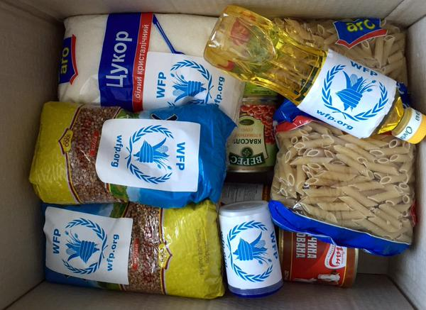 Food items in WFP food parcels